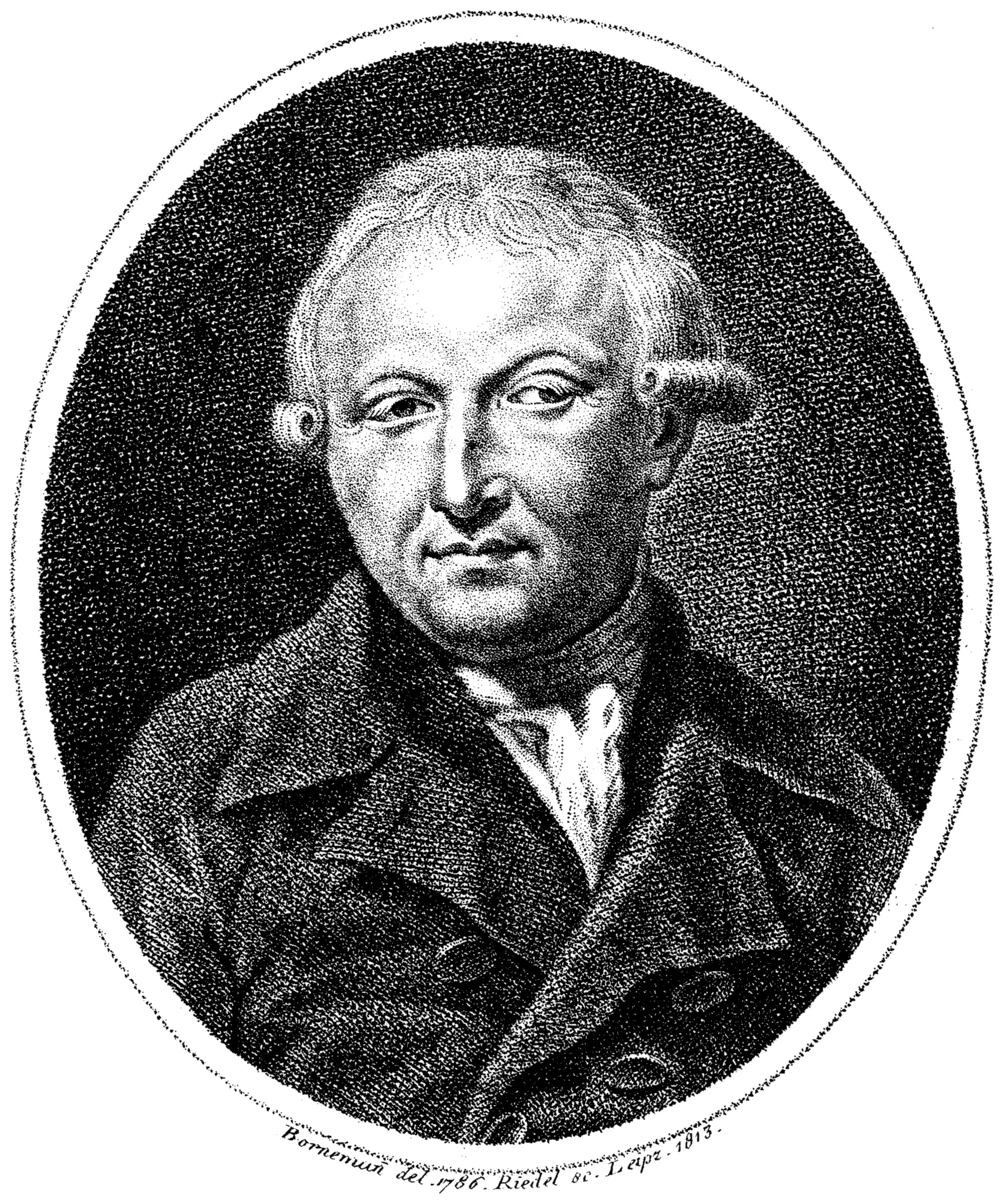 Depicted person: Johann Nikolaus Forkel